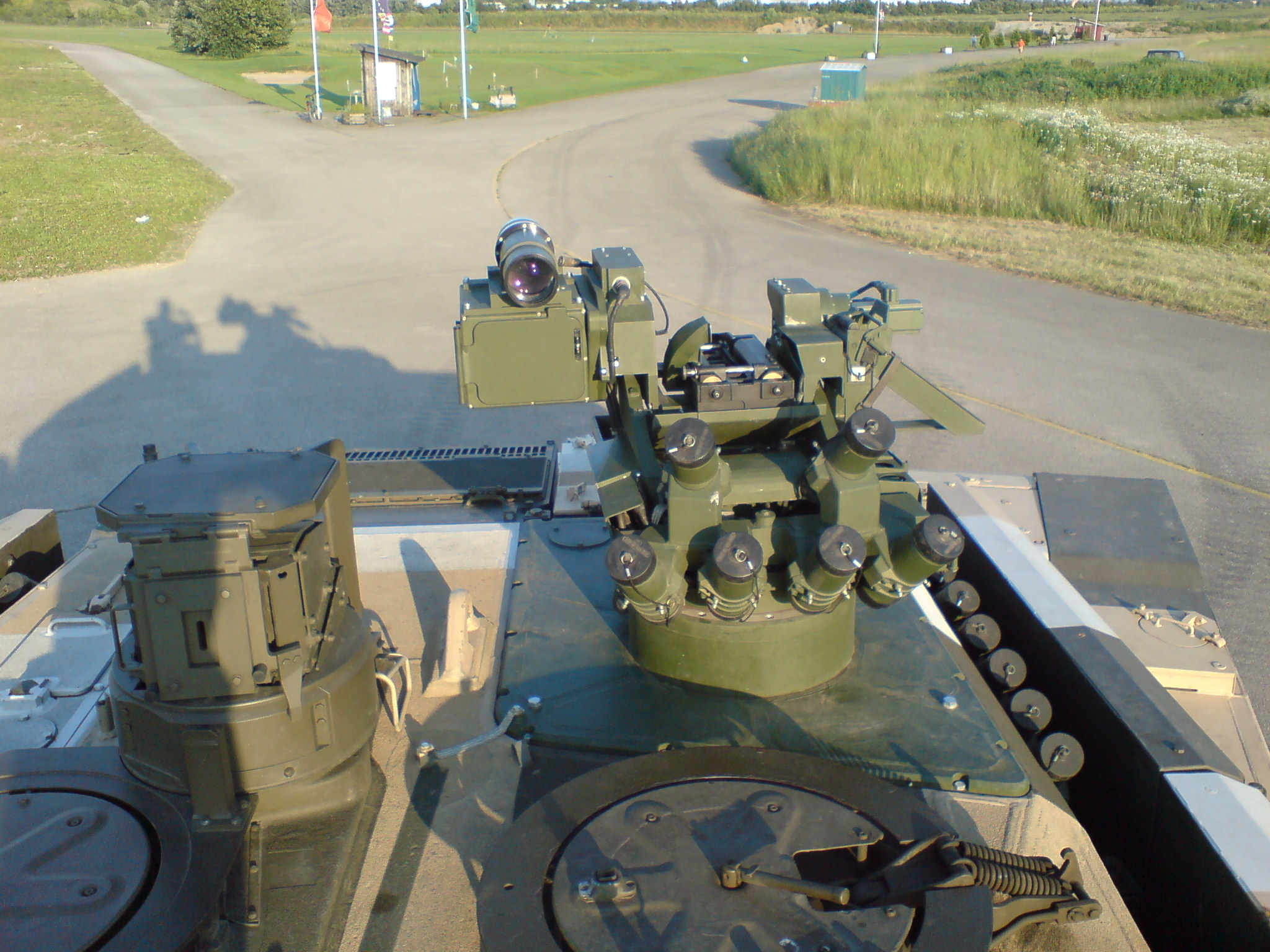 Leopard 2 PSO prototype in Munich, 2008, turret details